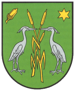 Coat of arms of Schweisweiler